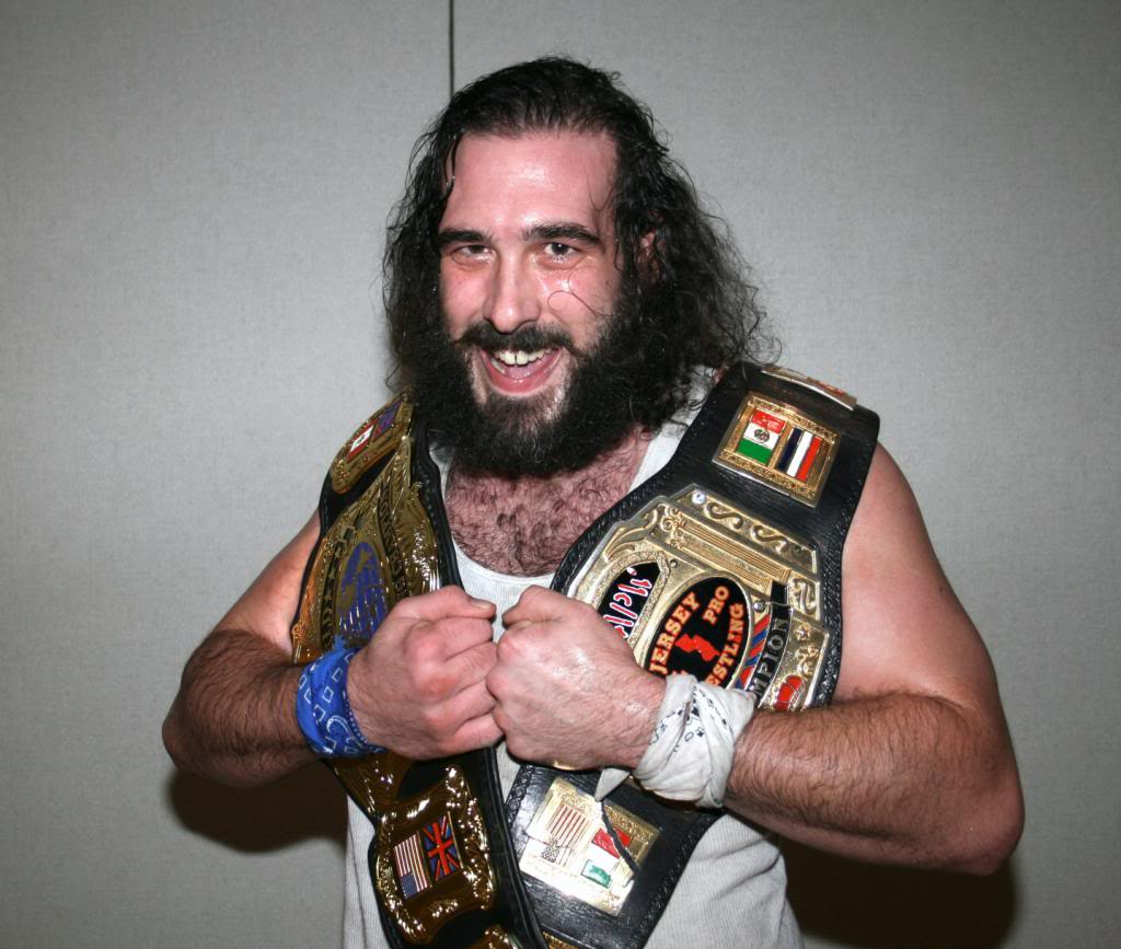 Backstage photo of Brodie Lee in JAPW 2010